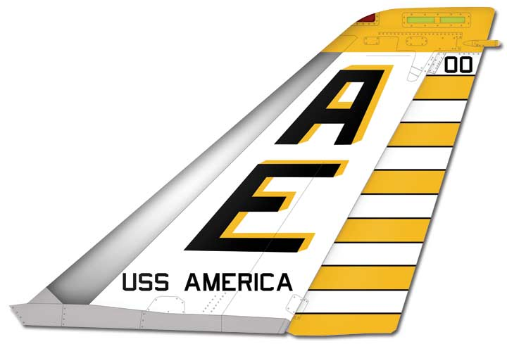 The tail of a US Navy F-14A Tomcat, belonging to VF-142, the "Ghostriders". Original created in Adobe Photoshop by Erik Hess in 2004.